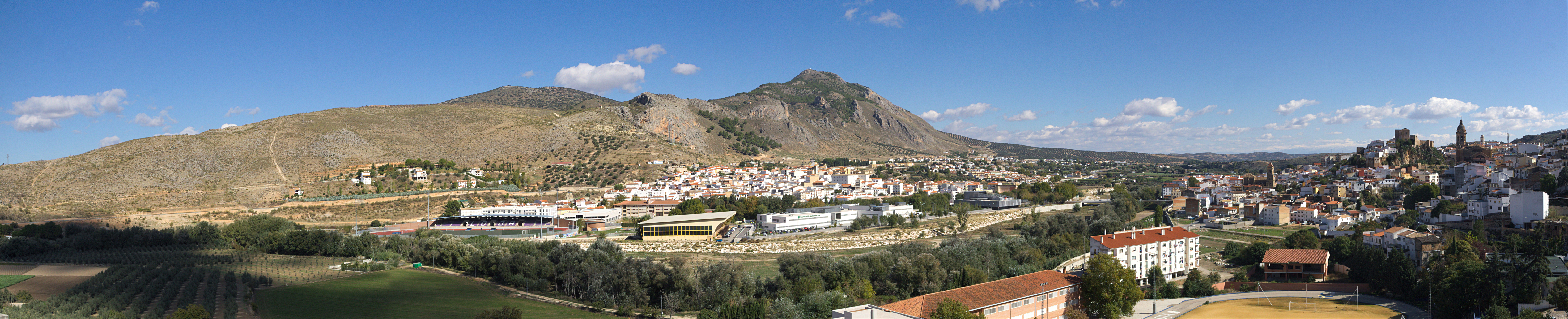 View of Loja / Andalusia, Spain